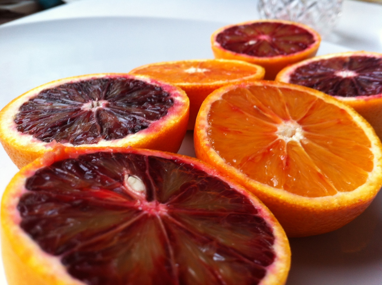 Citrus × sinensis, half of an orange cut in half with a sharp knife and a full, on white background